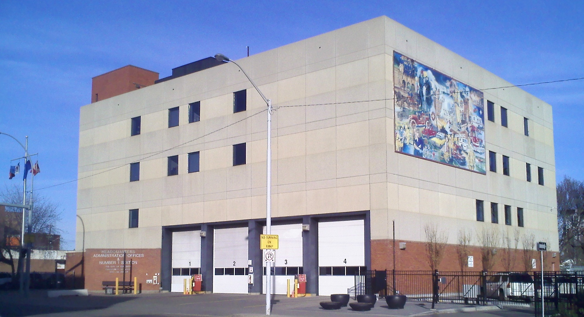 South and west faces of Edmonton Fire Station Number One at 10352 96 Street, Edmonton.